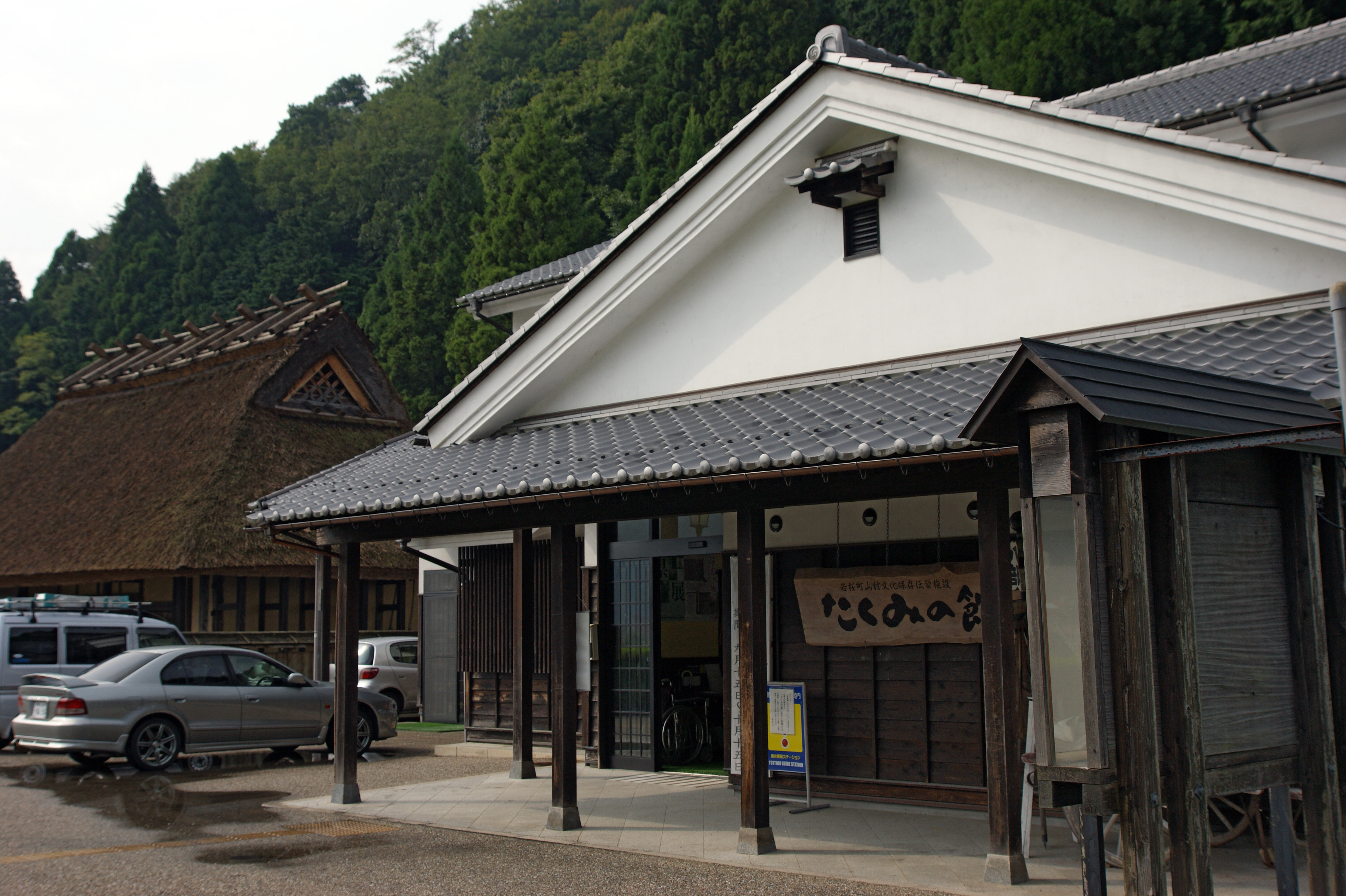 Wakasa kyodobunka-no-sato in Wakasa, Tottori prefecture, Japan